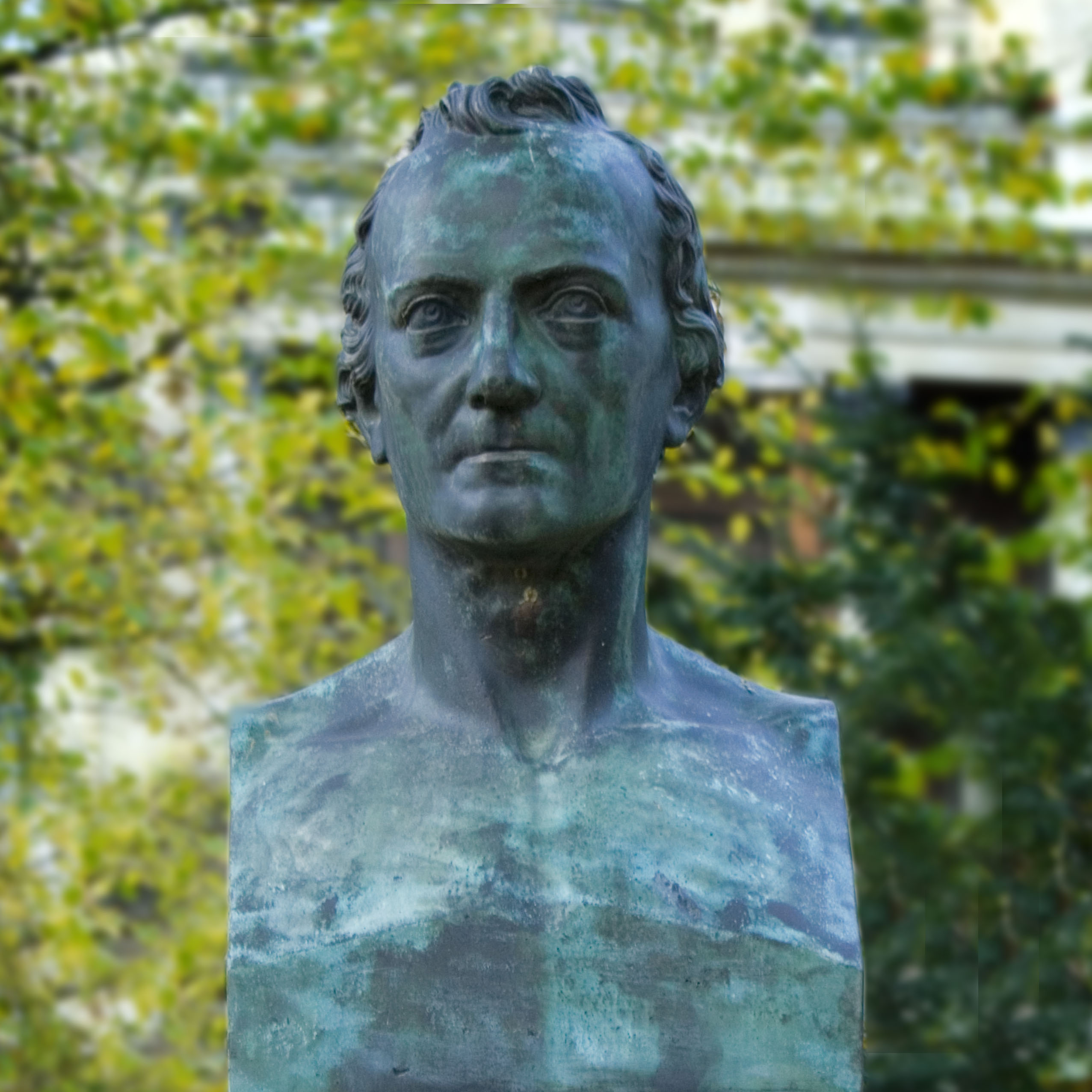 Ferenc Kazinczy bust in Budapest, park of Hungarian National Museum.